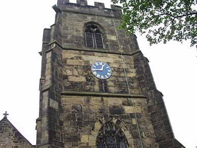 The clock and tower of St. Mary's Parish Church in Ruabon Original photograph taken by John Haynes, June 2006